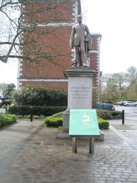 Statue of Baron Seaton